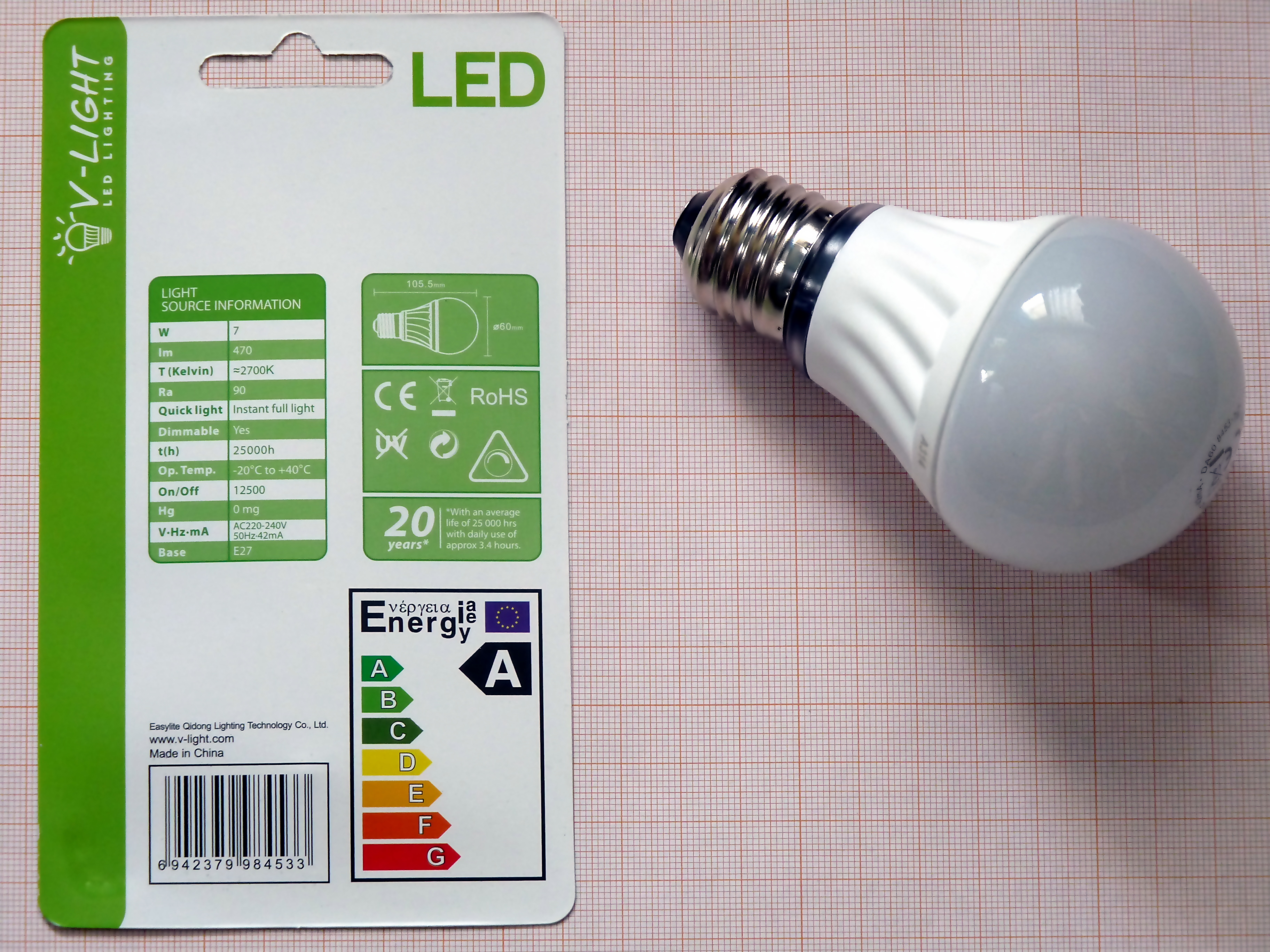 Disassembled 7-watt LED light bulb (470lm) manufactured by Easylite Qidong Lighting Technology Co Ltd. Low-quality product for 12.50€. There were found out next properties during examination: Advantages: cosφ=0.7246 dimmable Disadvantages: intermediate level of flickering - harmful for eyes heavy weight solid-state power supply - cannot be repaired fire hazard in enclosed light fixtures